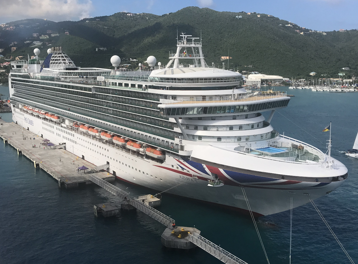 Azura docked in Tortola, BVI on January 30, 2020.